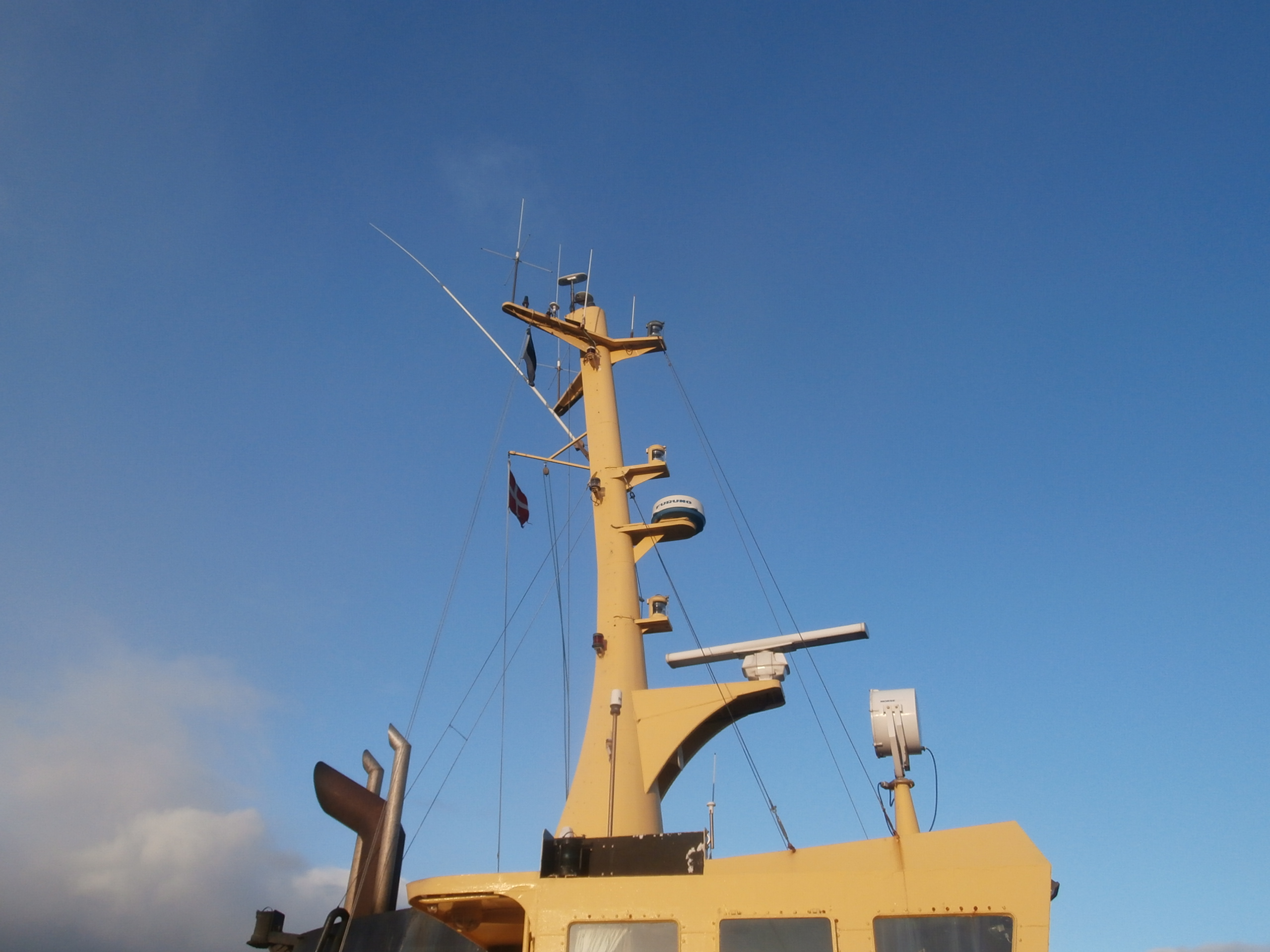 Odin Top Tallinn 10 November 2013